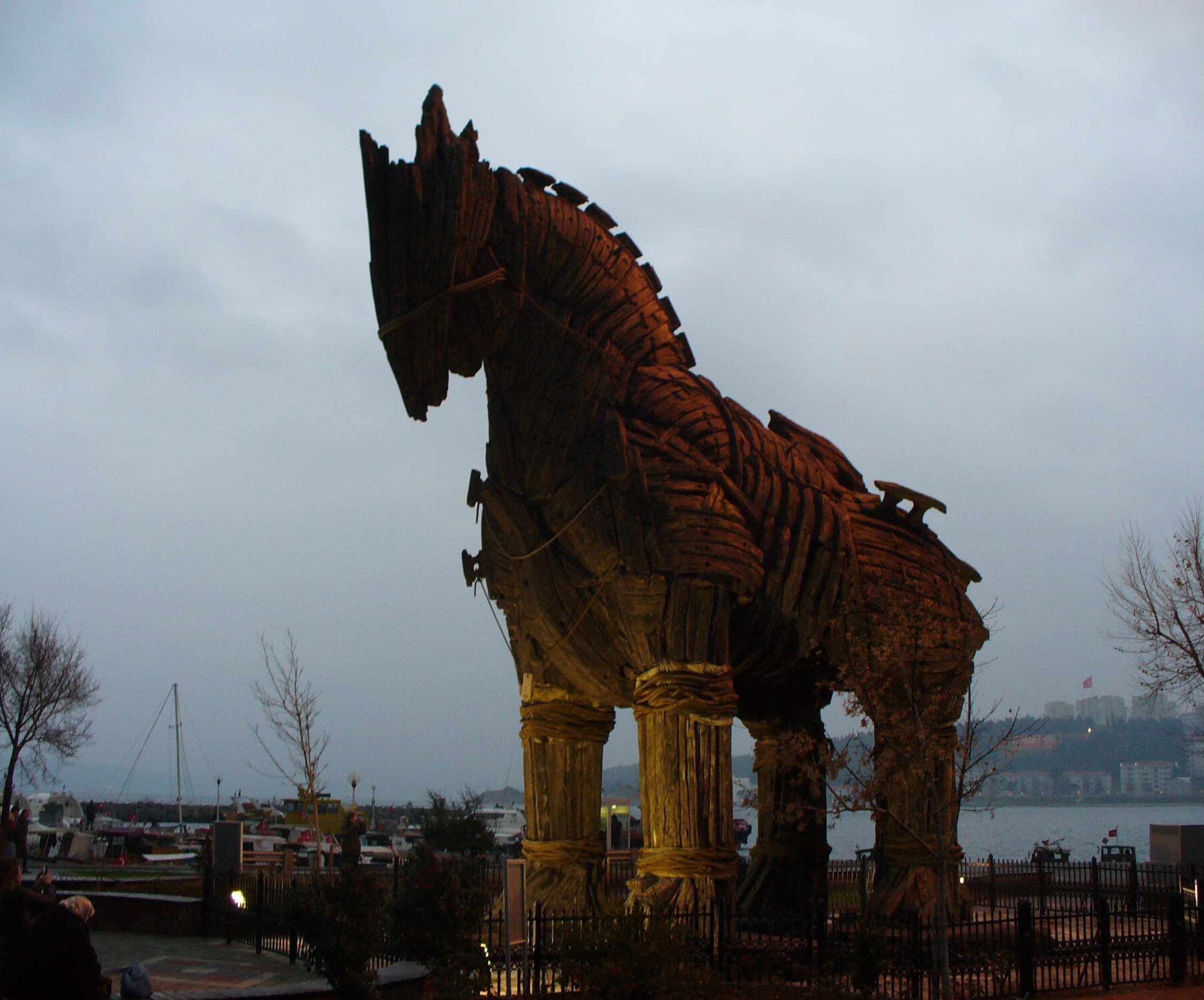 This is the Trojan horse which appeared in the Brad Pitt movie, now in the town of Çanakkale near Troy.